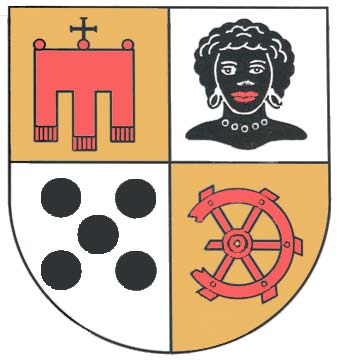 Coat of Arms of the district Möhringen of Stuttgart